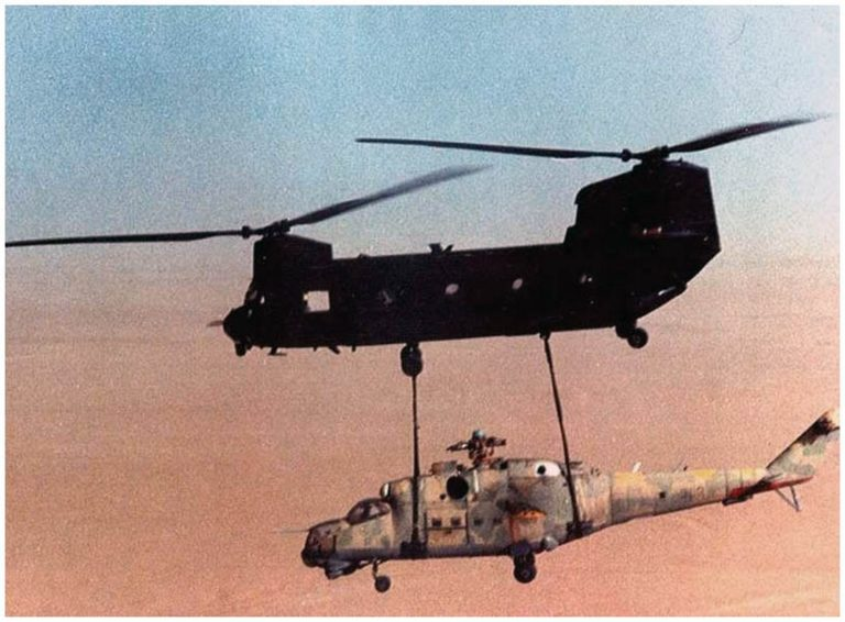 Night Stalkers from Company E of the 160th SOAR fly the slingloaded Mi-24 Hind helicopter out of northern Chad during Operation Mount Hope III.